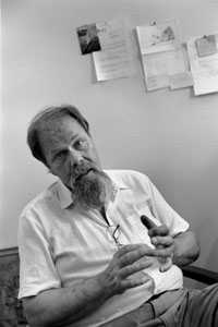 Remy Droz